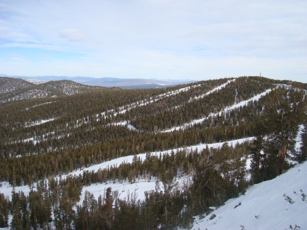 A view of some of the slopes at June Mountain, California